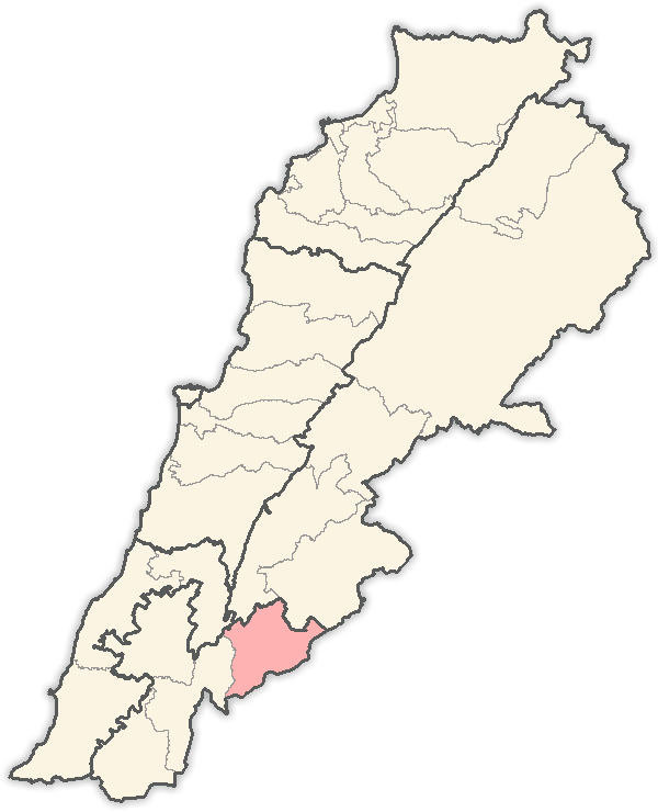 Map of districts in Lebanon, highlighting the Hasbeya District